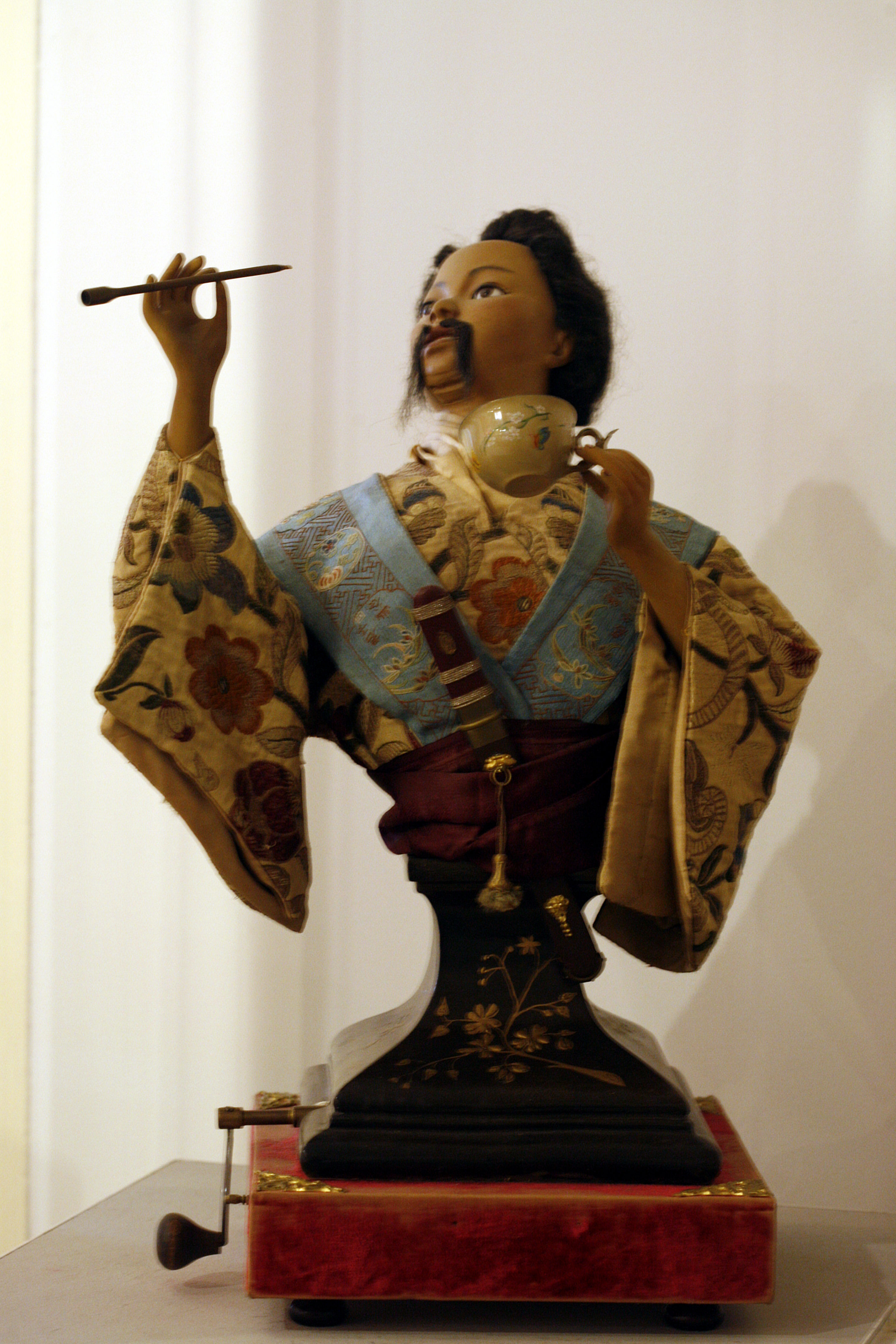 CIMA museum (Centre International de la Mécanique d'Art)